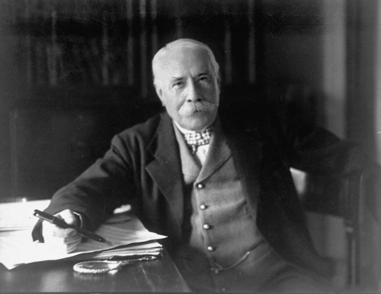 Edward Elgar, photographed in 1931 by Herbert Lambert. Lambert died in 1936